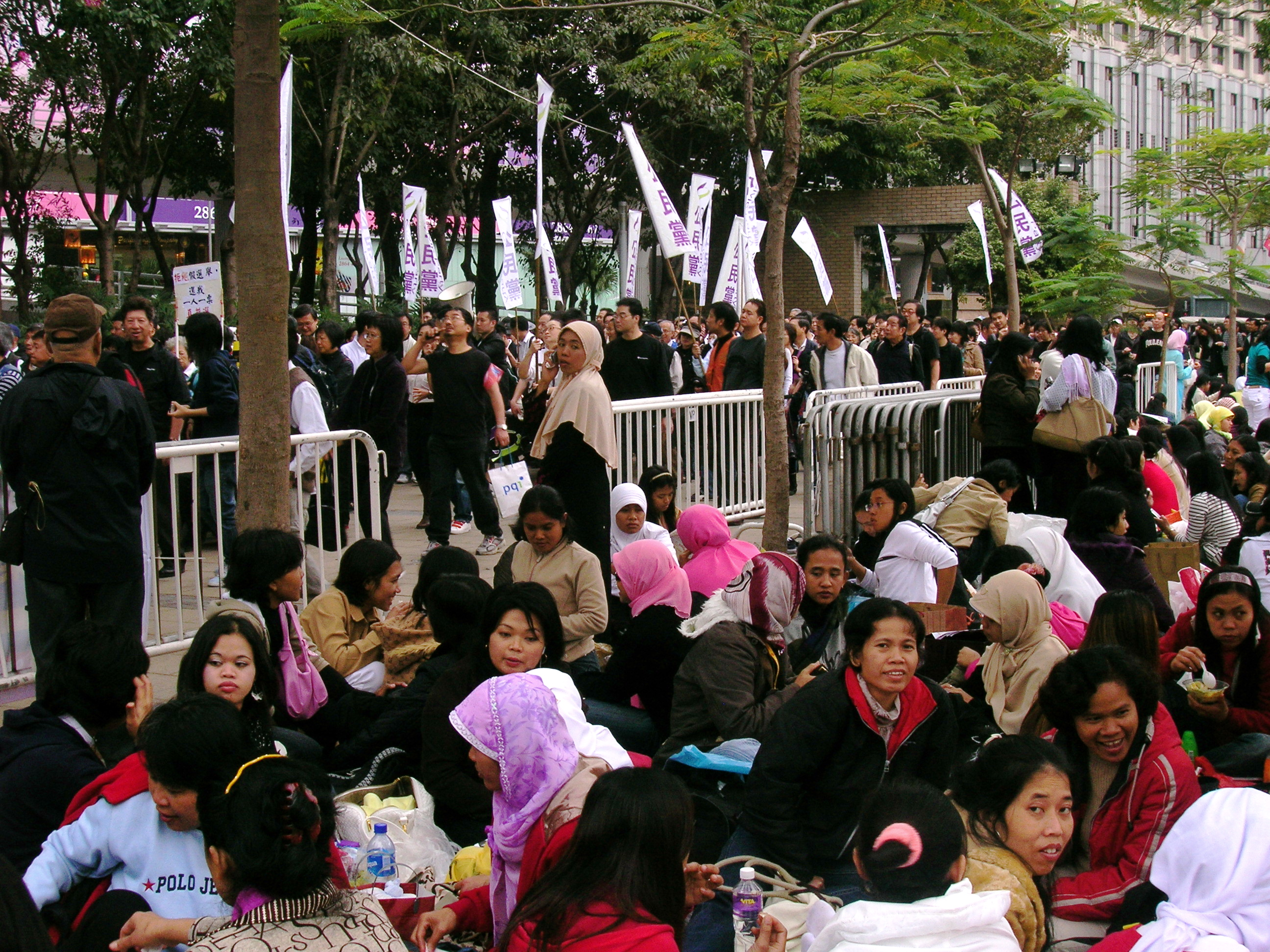 Indonesian maids congregate in Victoria Park